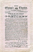 Programme for Gretchen (1879) from Simon Moss's 'Gilbert & Sullivan a selling exhibition of memorabilia'